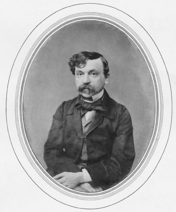 Ivan Ivanovich Panaev